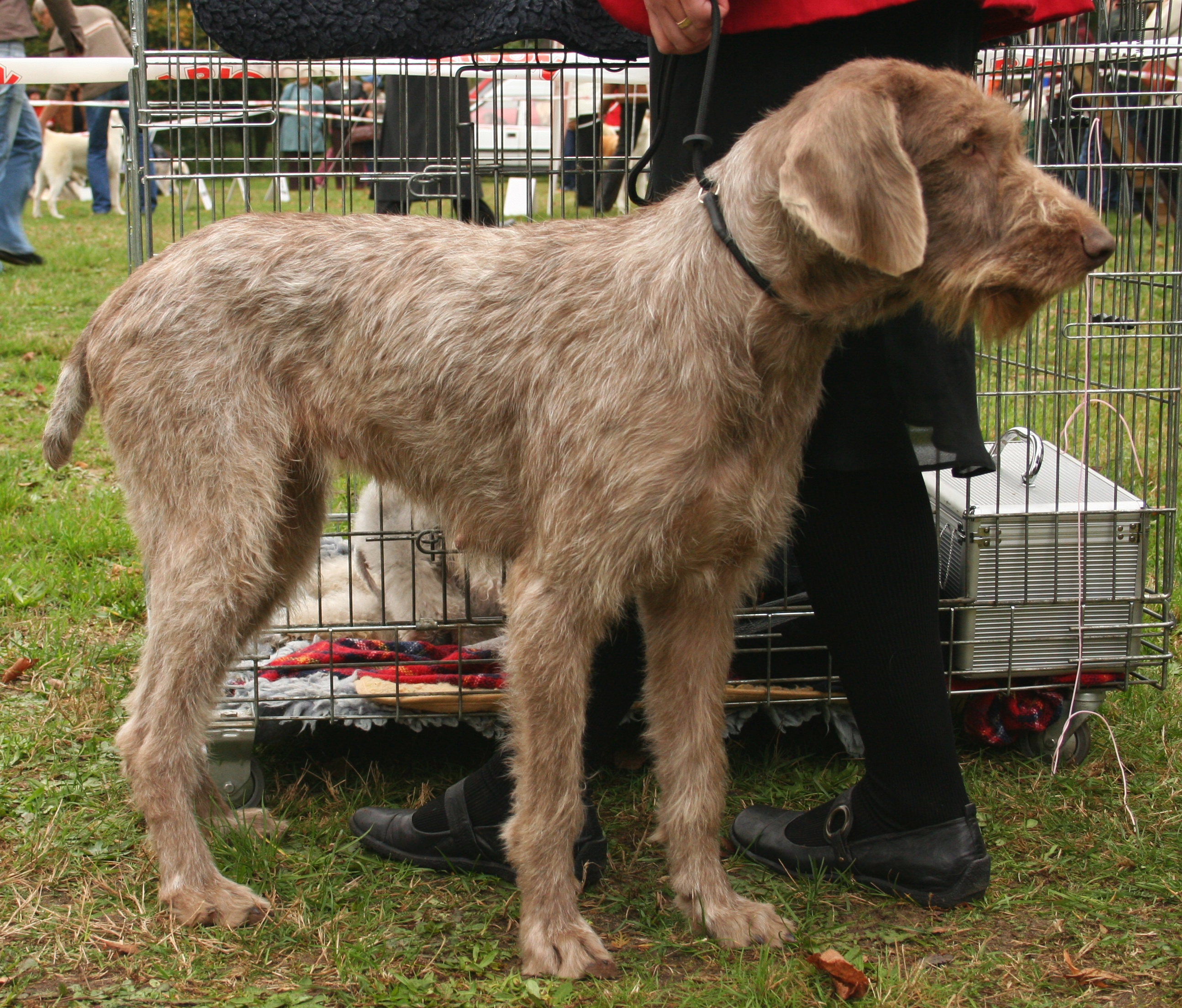 Slovakian Wire-haired Pointing Dog during show of dogs in Rybnik - Kamień, Poland